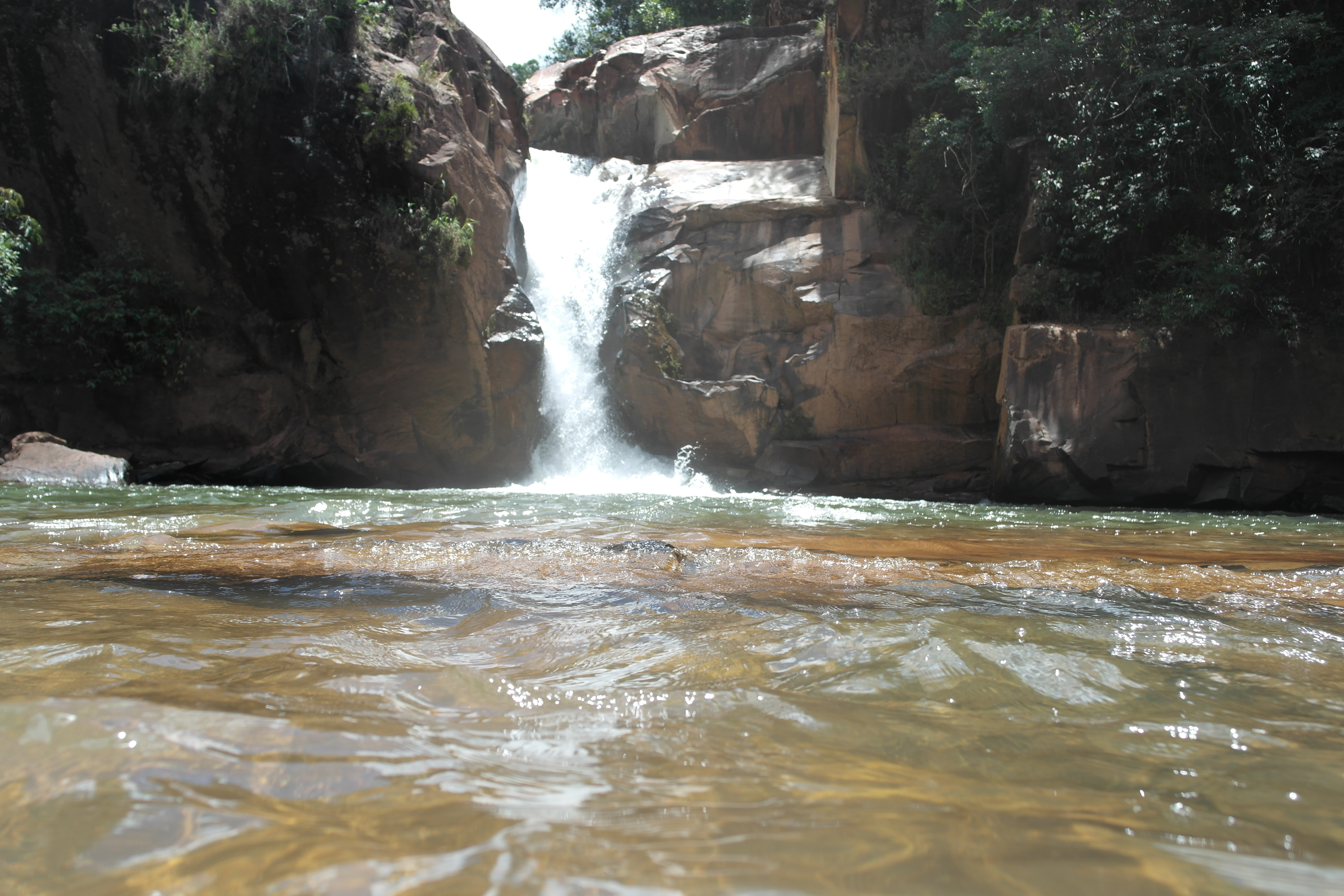 Waterfalls of Casa Branca stream, Brumadinho, Minas Gerais, Brazil